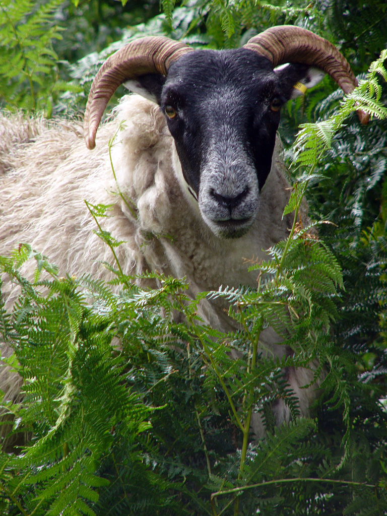 A sheep on Kerrera.